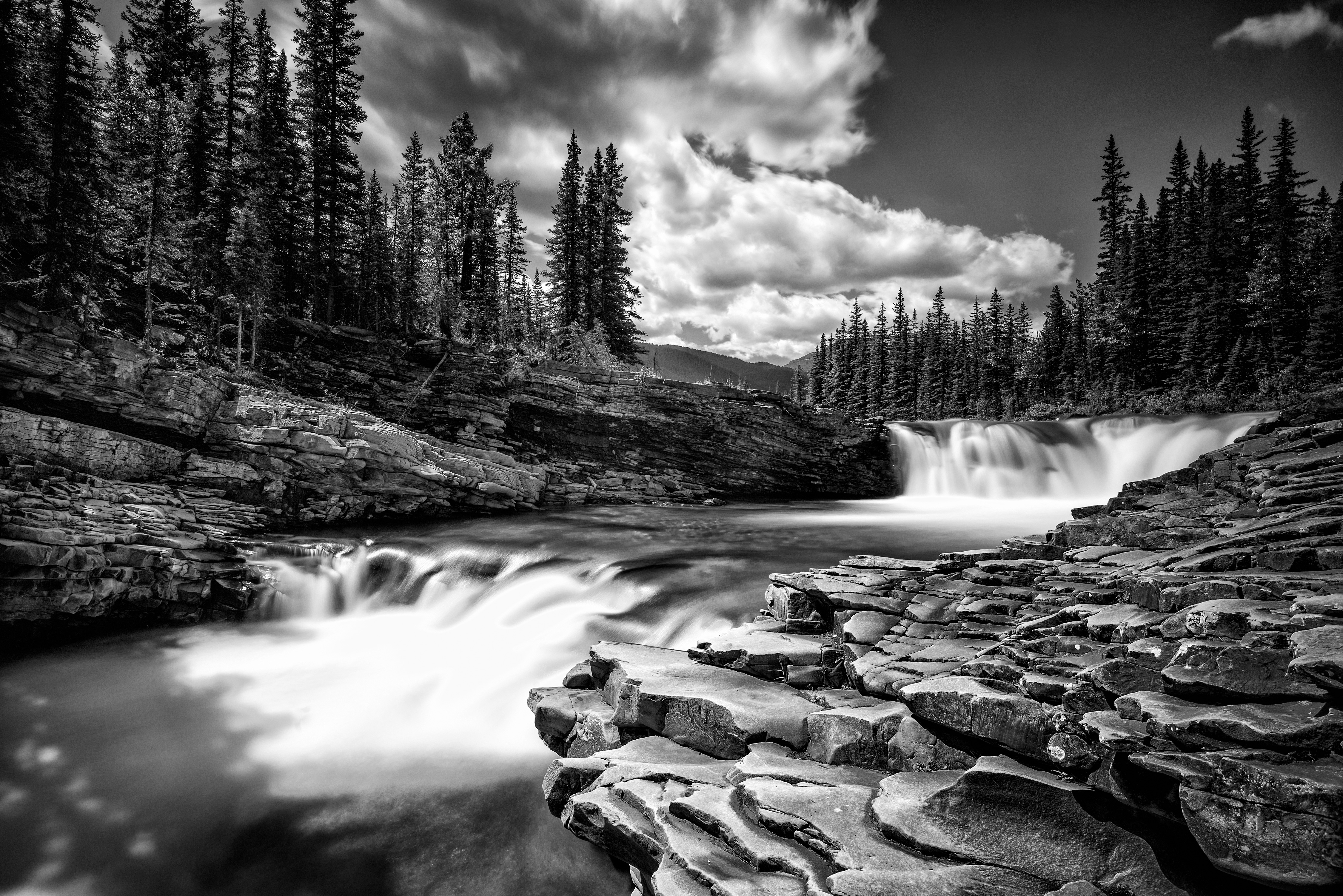 Long exposure photograph of the Sheep River Falls, a popular site among locals in the vicinity of Calgary, AB (1.5 hr. trip) and near the town of Turner Valley. This photo was taken in a protected area in Canada, Wikidata item Q7492427